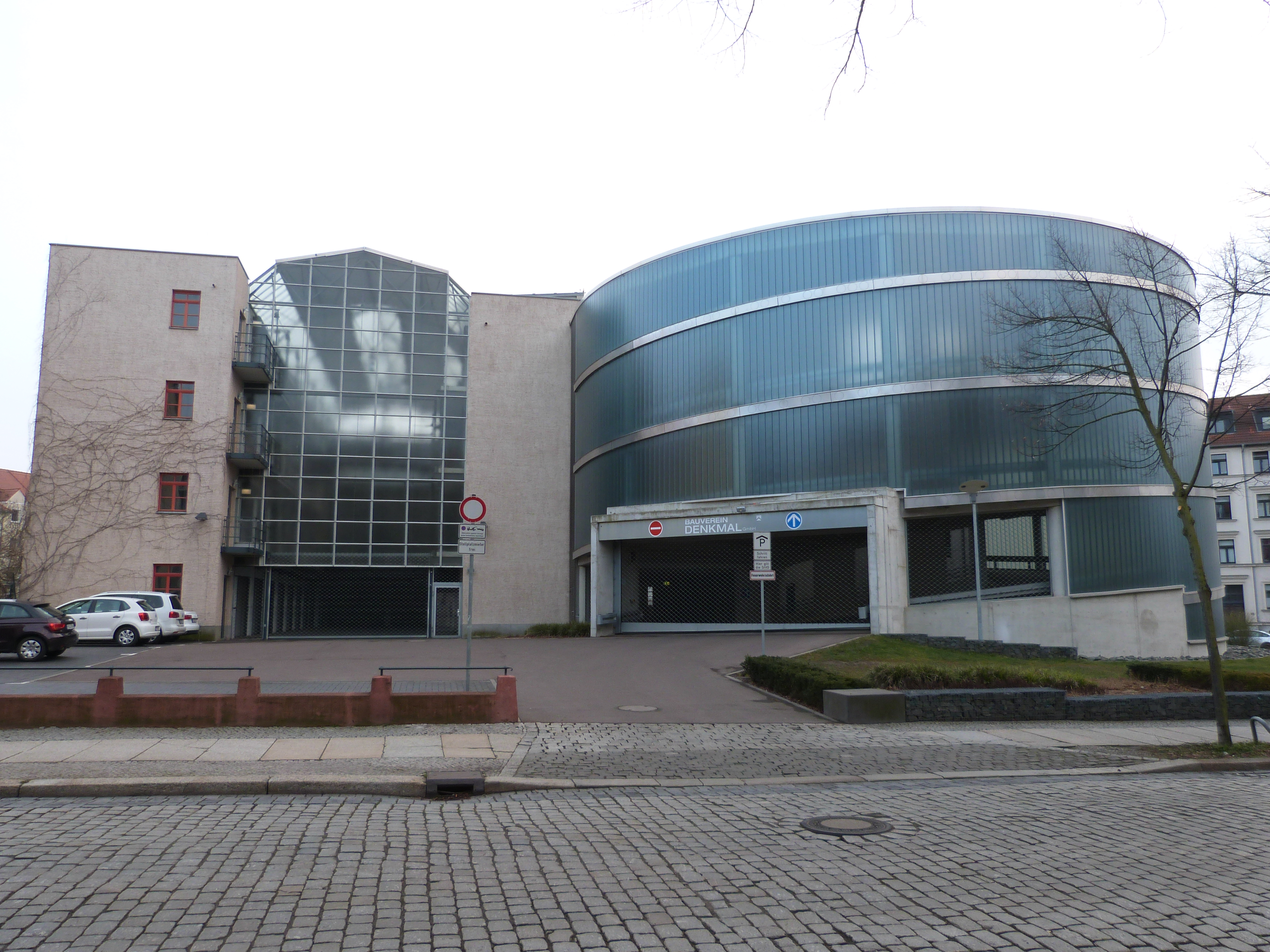 Car Park "Pfännerhöhe", Pfännerhöhe No. 71, Halle (Saale)